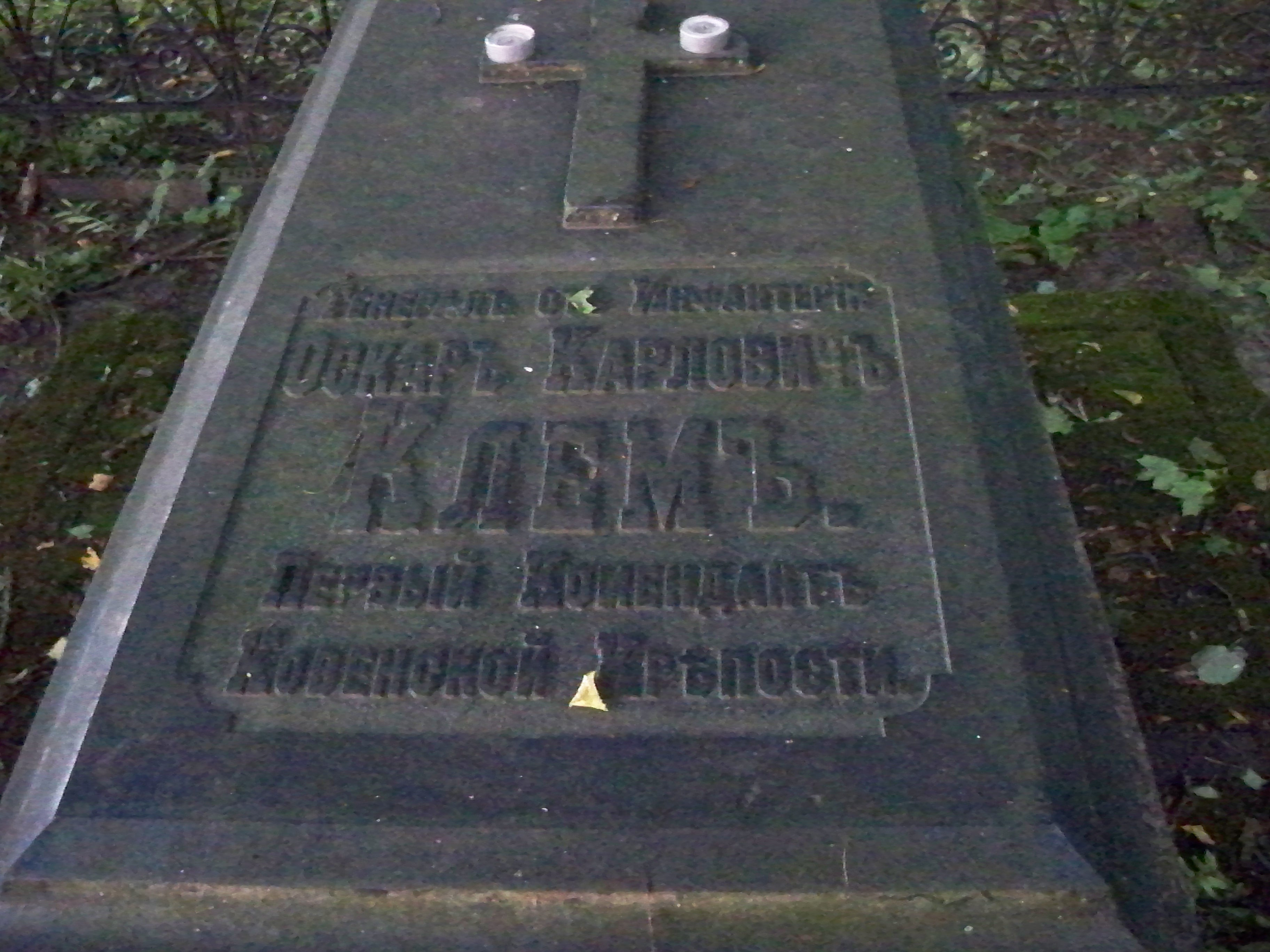 Freda cemetery. Oskar Karlovich Klem grave.